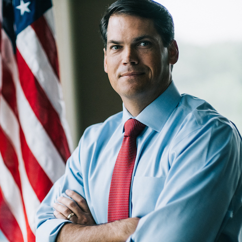 Geoff Duncan is a candidate for Lt. Governor of Georgia